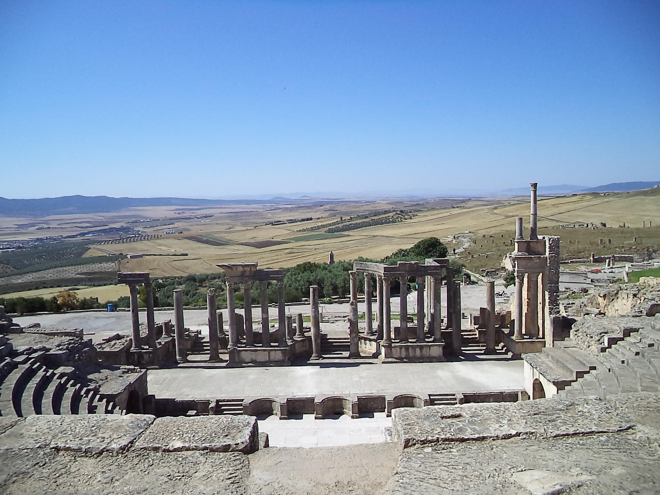 duggah